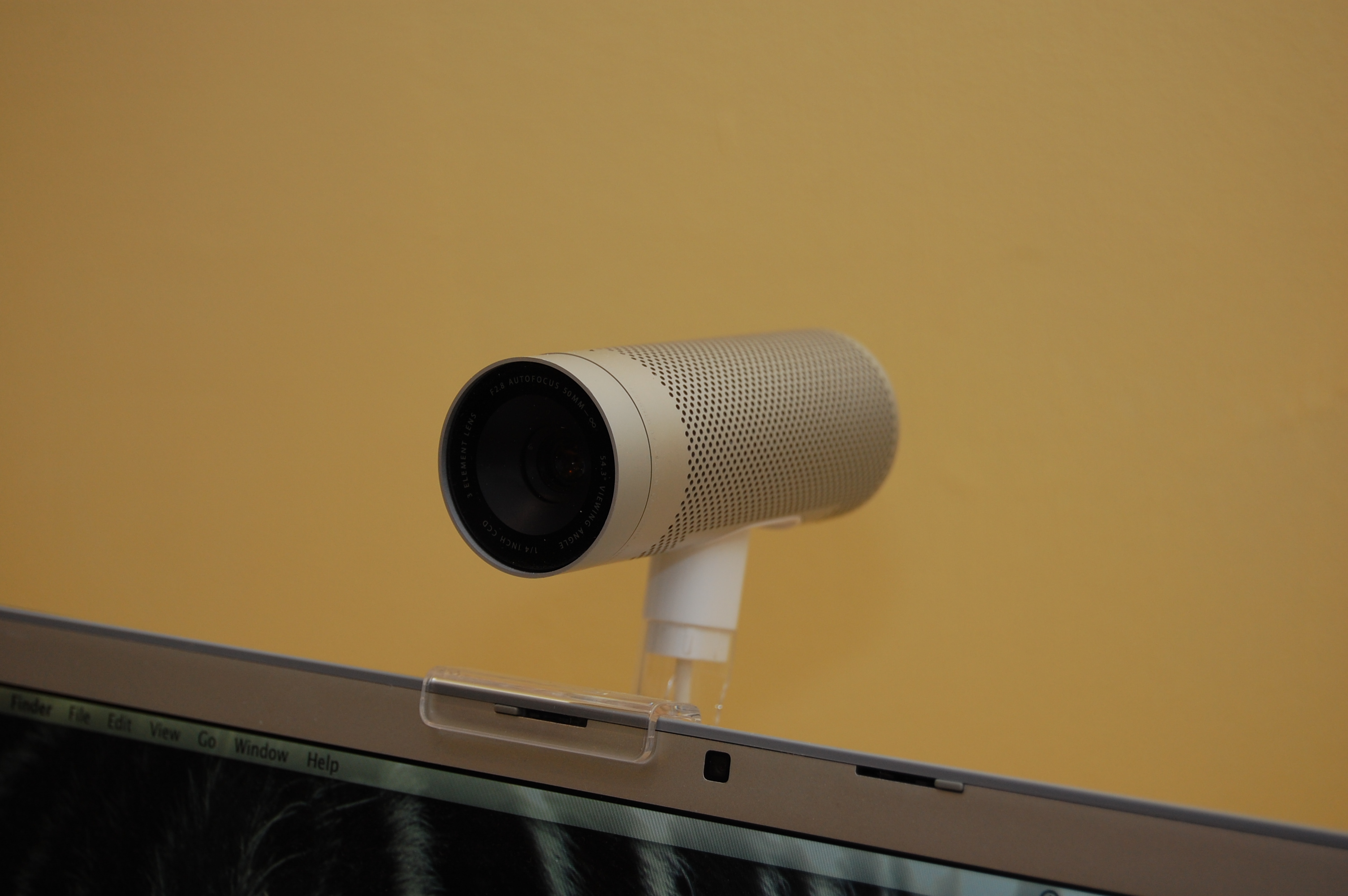 Apple iSight camera (correct orientation)